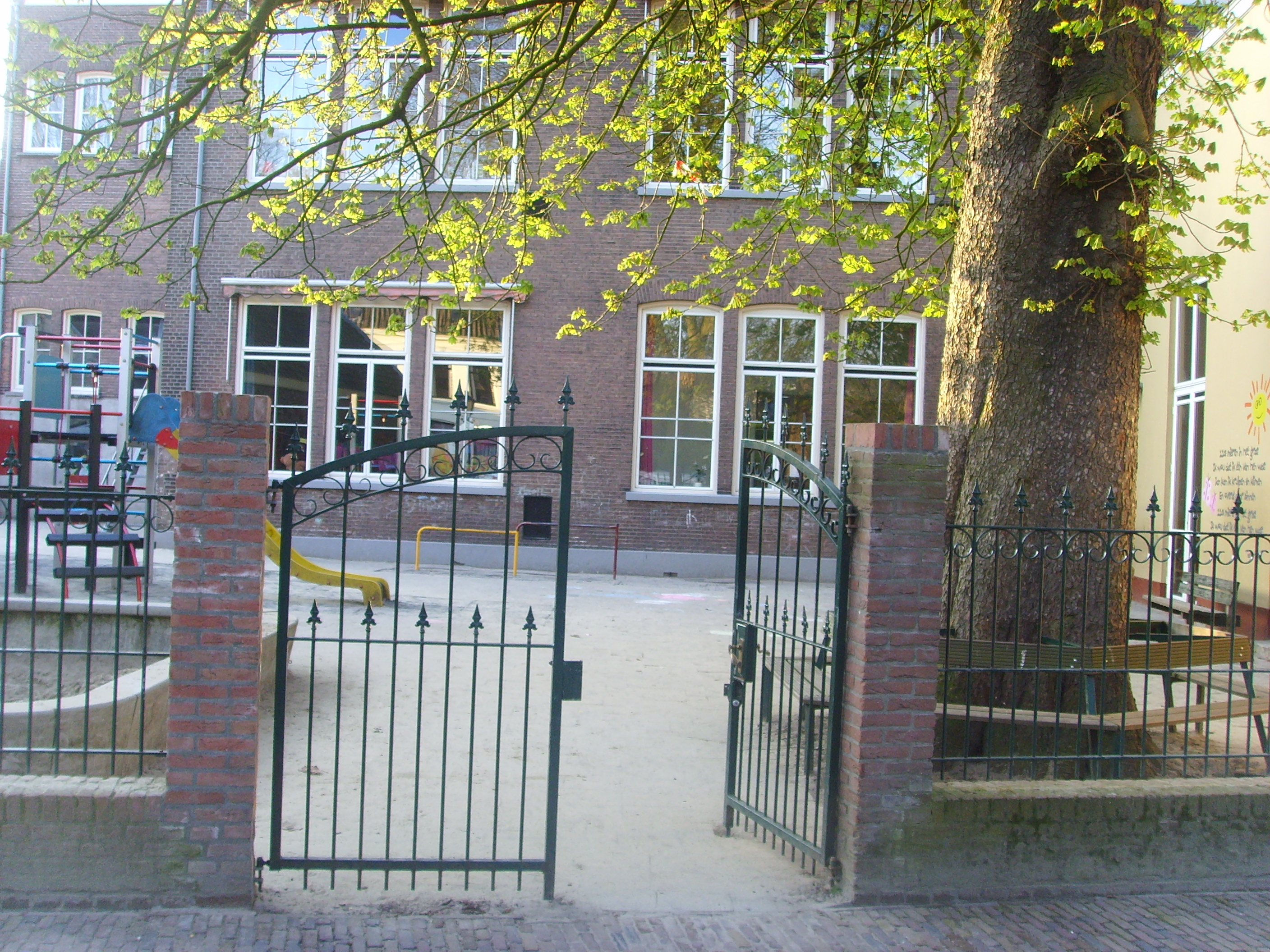 Agatha Snellenschool, Utrecht